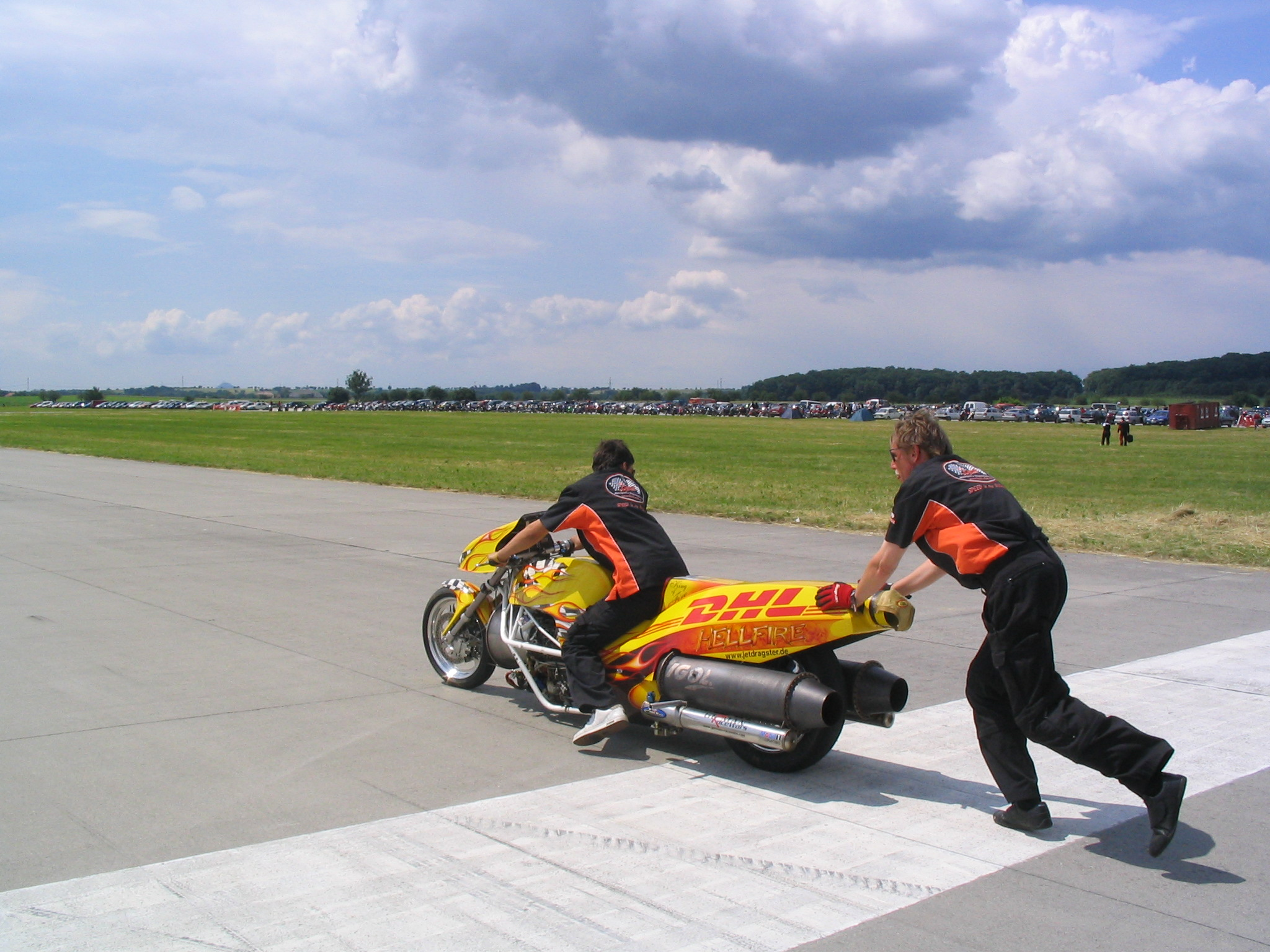 jet-bike on dragster show-race in Hodkovice, Czech republic